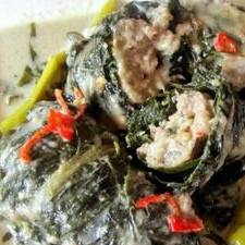 Healthy Food